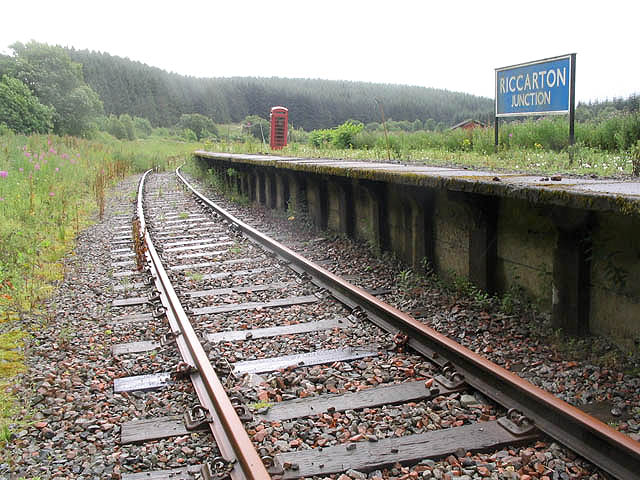 Waverley Line Original description: Riccarton Junction southbound platform